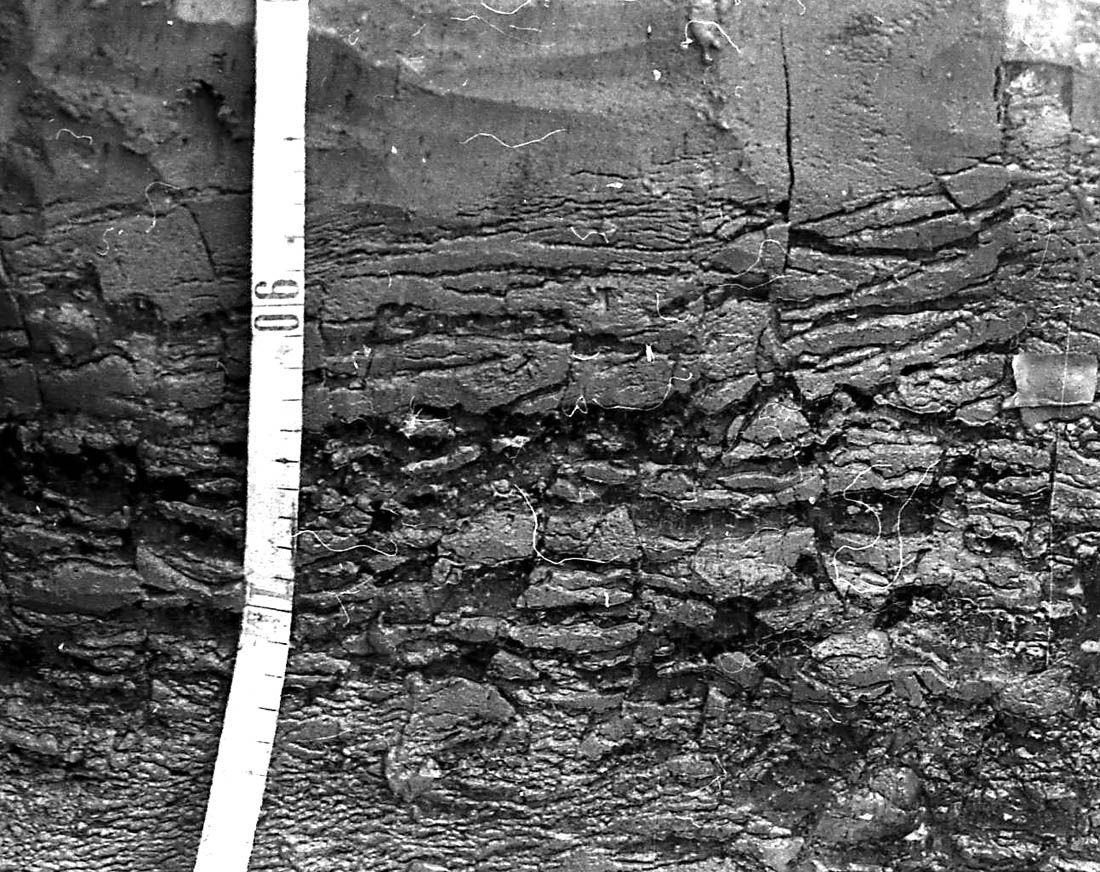 Cryogenic structure at the lower end STS. Sandy loam, South Gydan, 1988